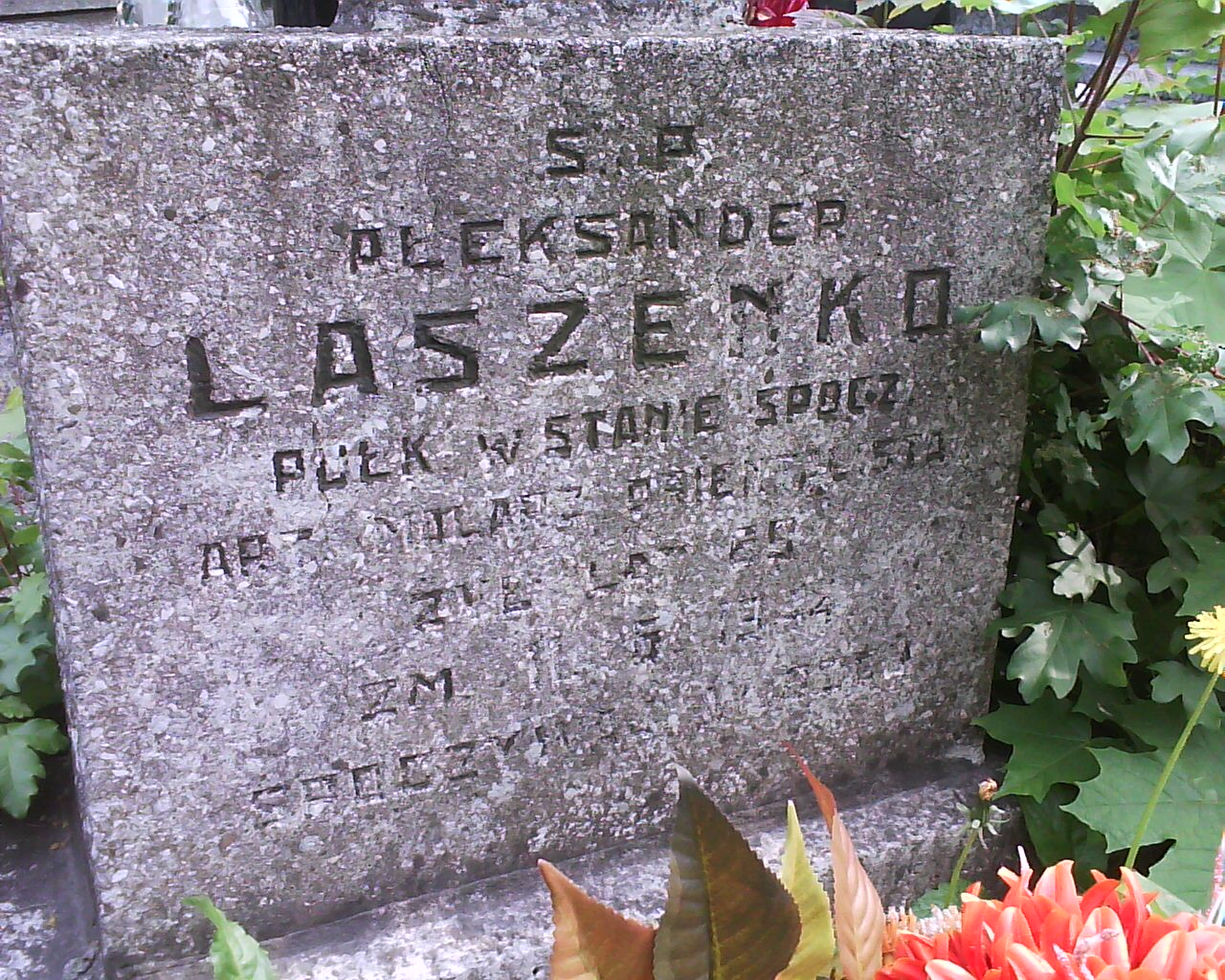 Artist's gravestone. Barely visible inscription: "Colonel Retired. Orientalist painter".